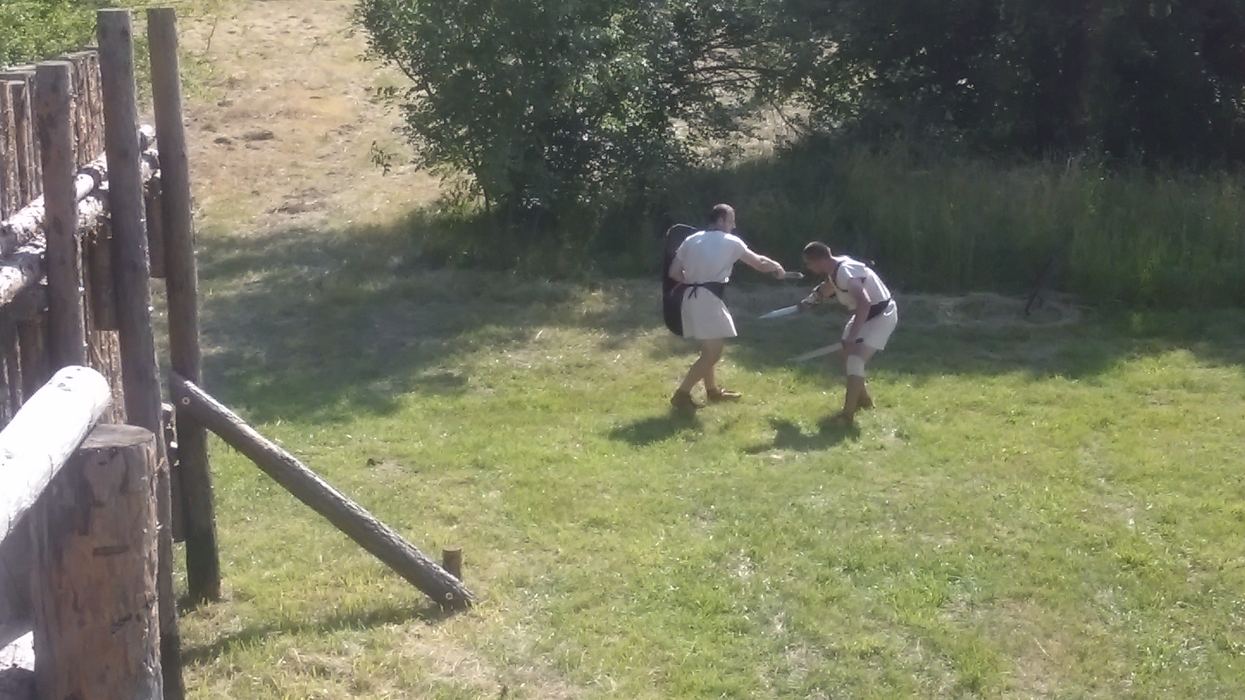 Roman gladiatores in action training, Abritus historical reenactment, Razgrad